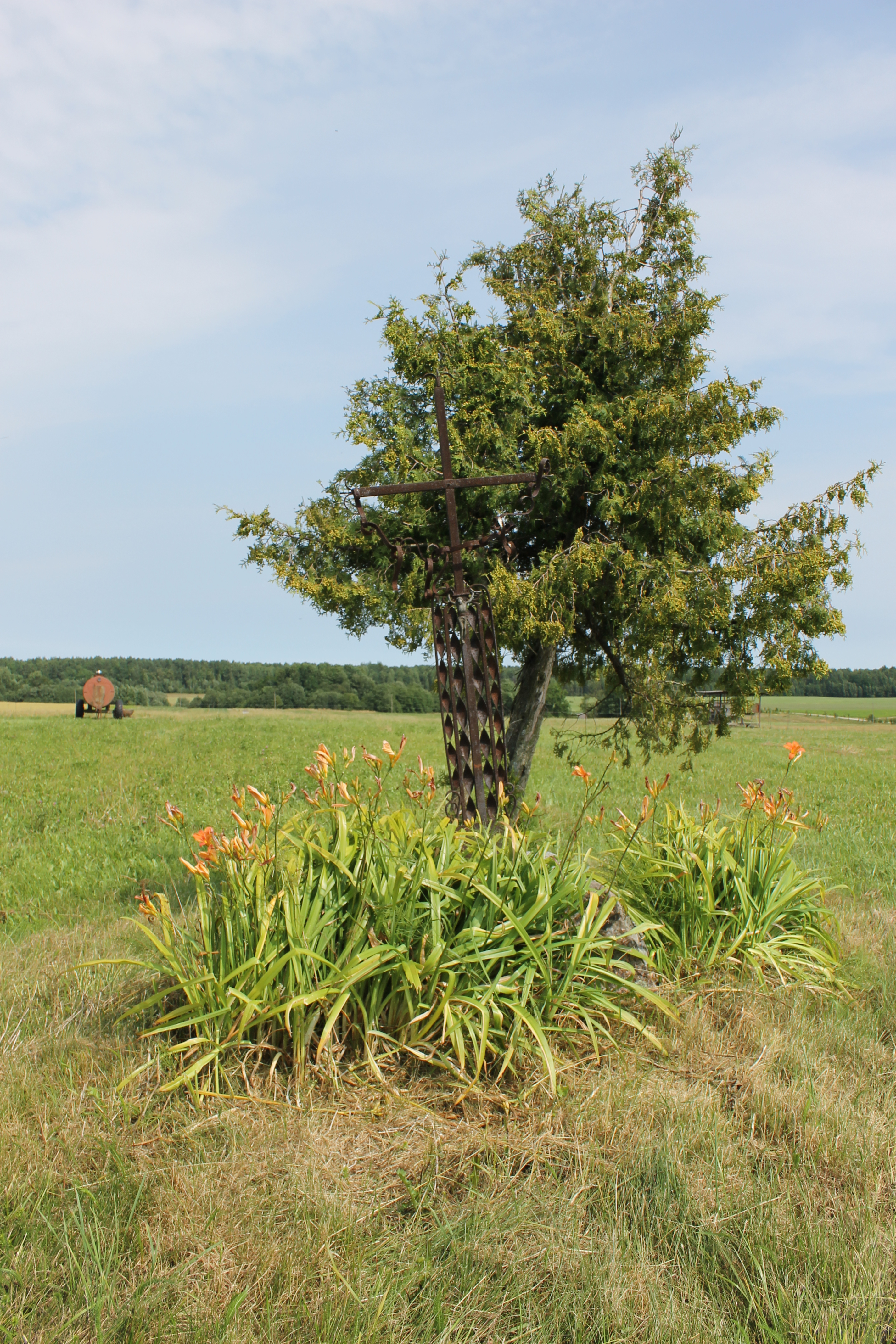 Dauginčiai, Kretinga district, LithuaniaLietuvių: Dauginčių prancūzkapių kryžius, Kretingos rajonas, Lietuva